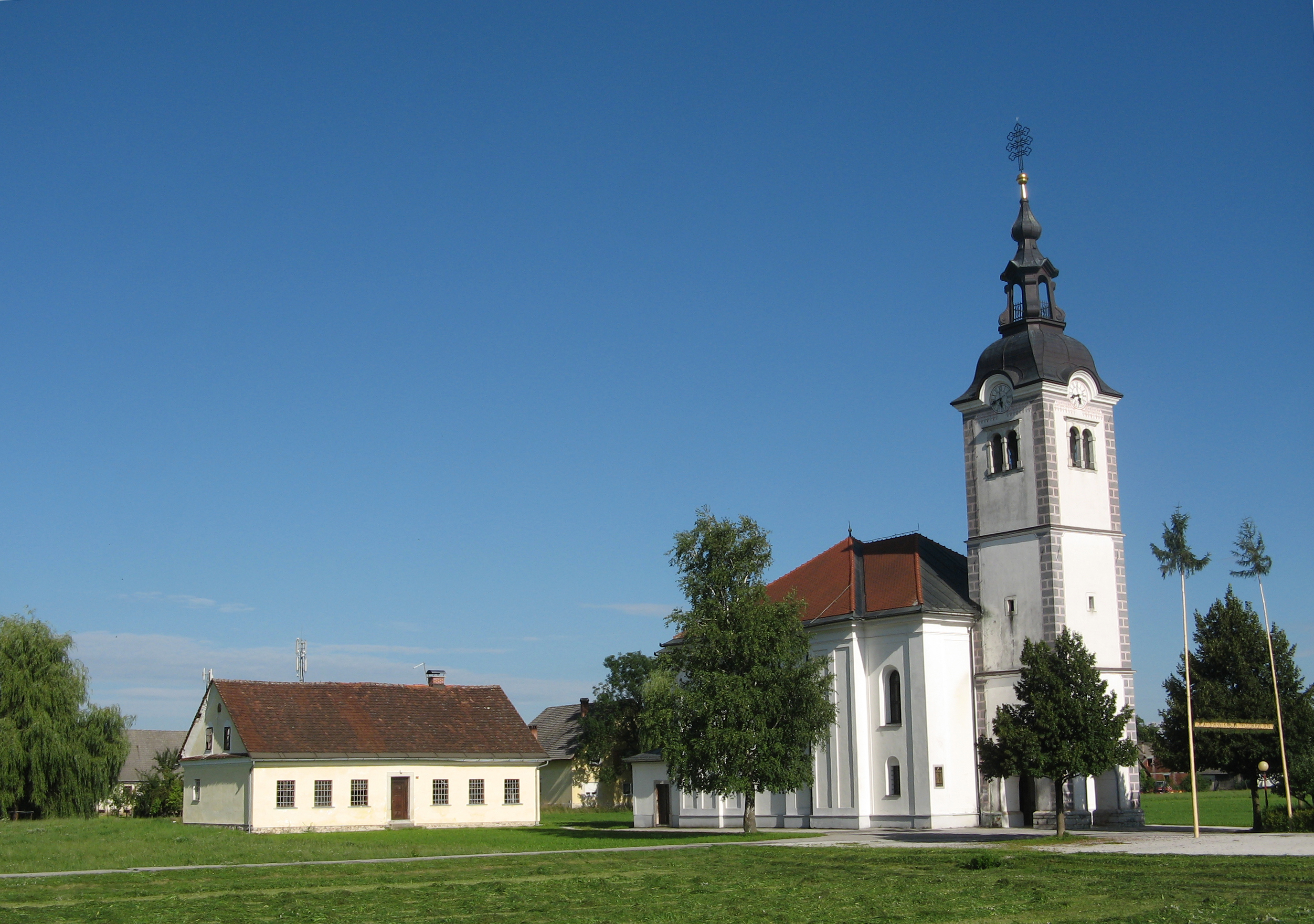 The village of Žabnica near Kranj in Slovenia